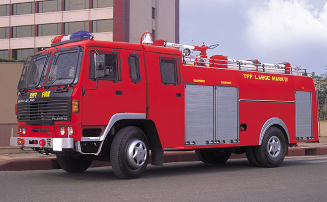 This is a fire engine used by fire brigades throughout India